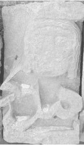 Georgian woman